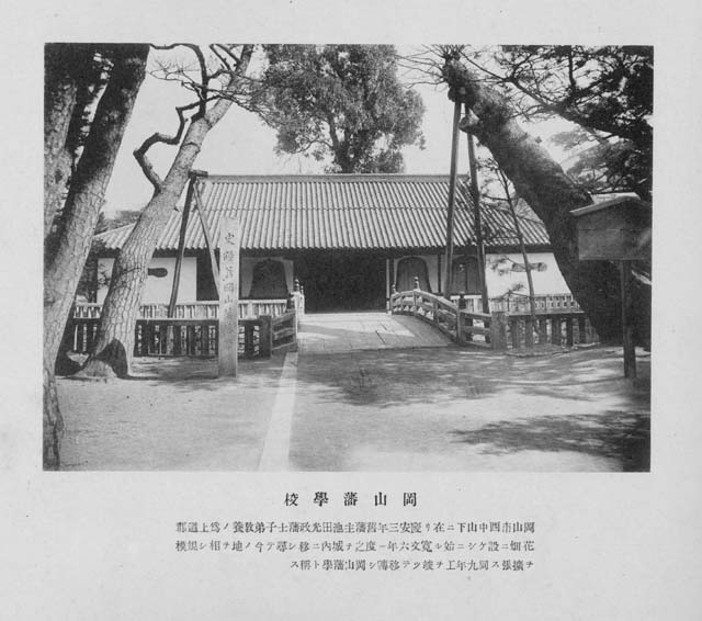 Okayama Domain Han school, before burnt down by US.’ airstrike in 1945.